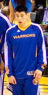 Jeremy Lin of Golden State Warriors lined up in blue tracksuit prior to game Oracle Arena, November 15 2010